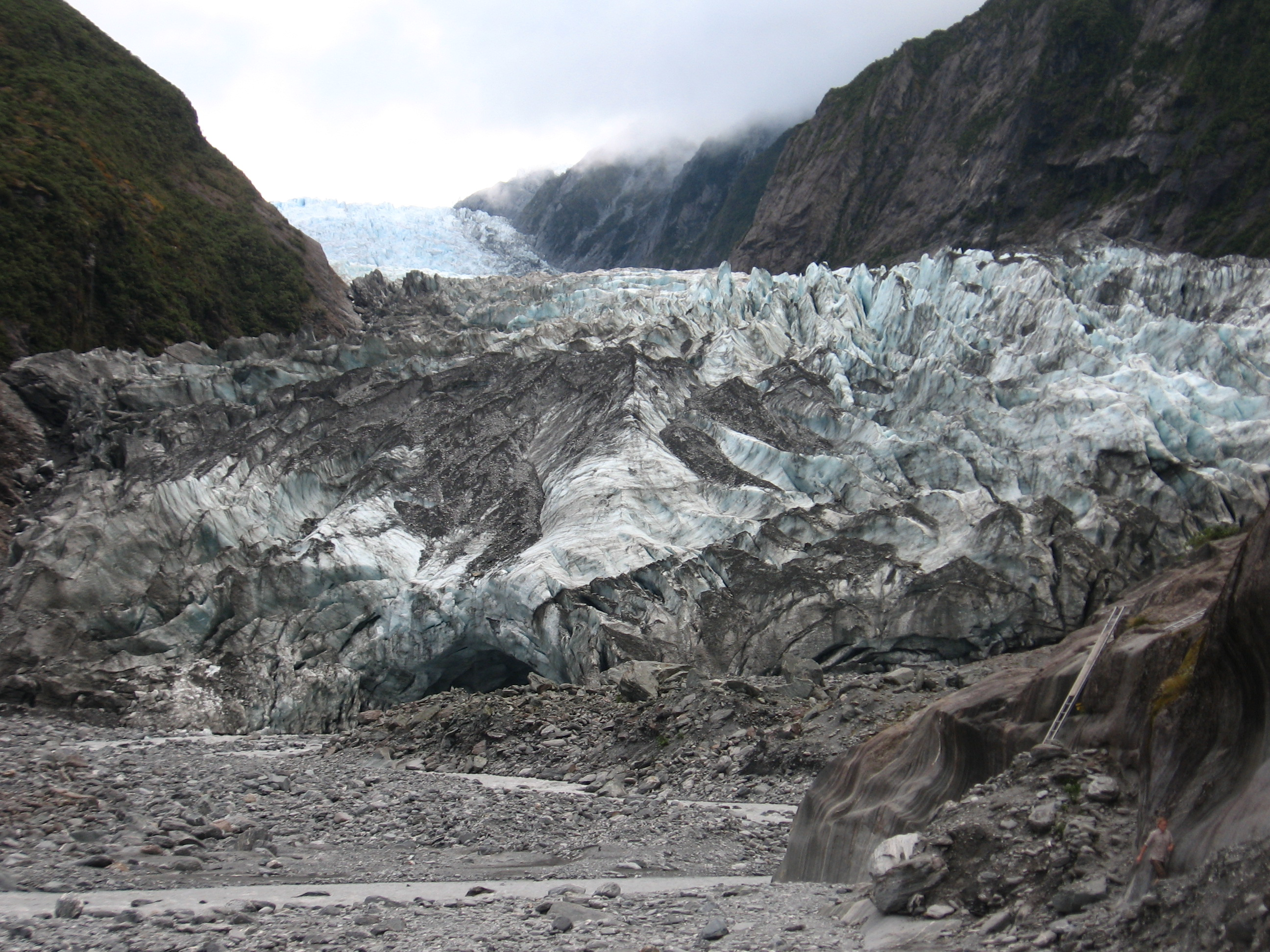 Franz-Josef glacier, NZ